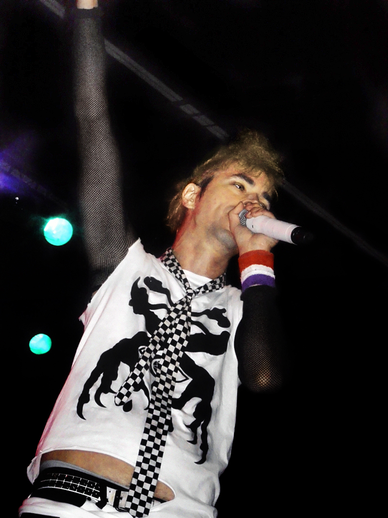 Jimmy Urine performing at The Marquee Theatre in Tempe, AZ on March 29, 2013.